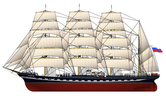 Drawing of the Russian sailing ship Kruzenshtern